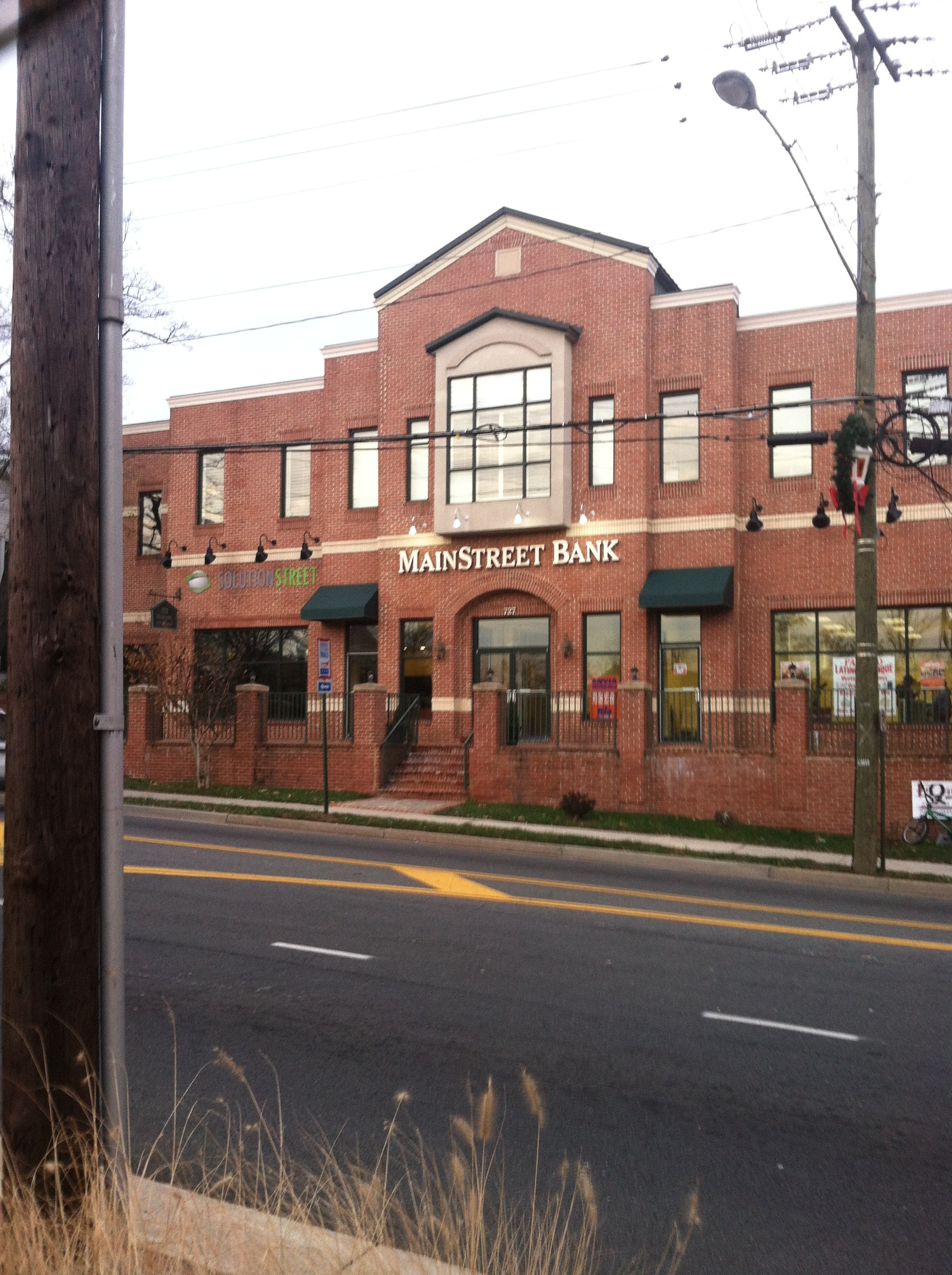 Main Street Bank, Herndon Virginia